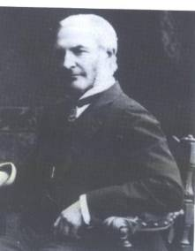 Edward Harland